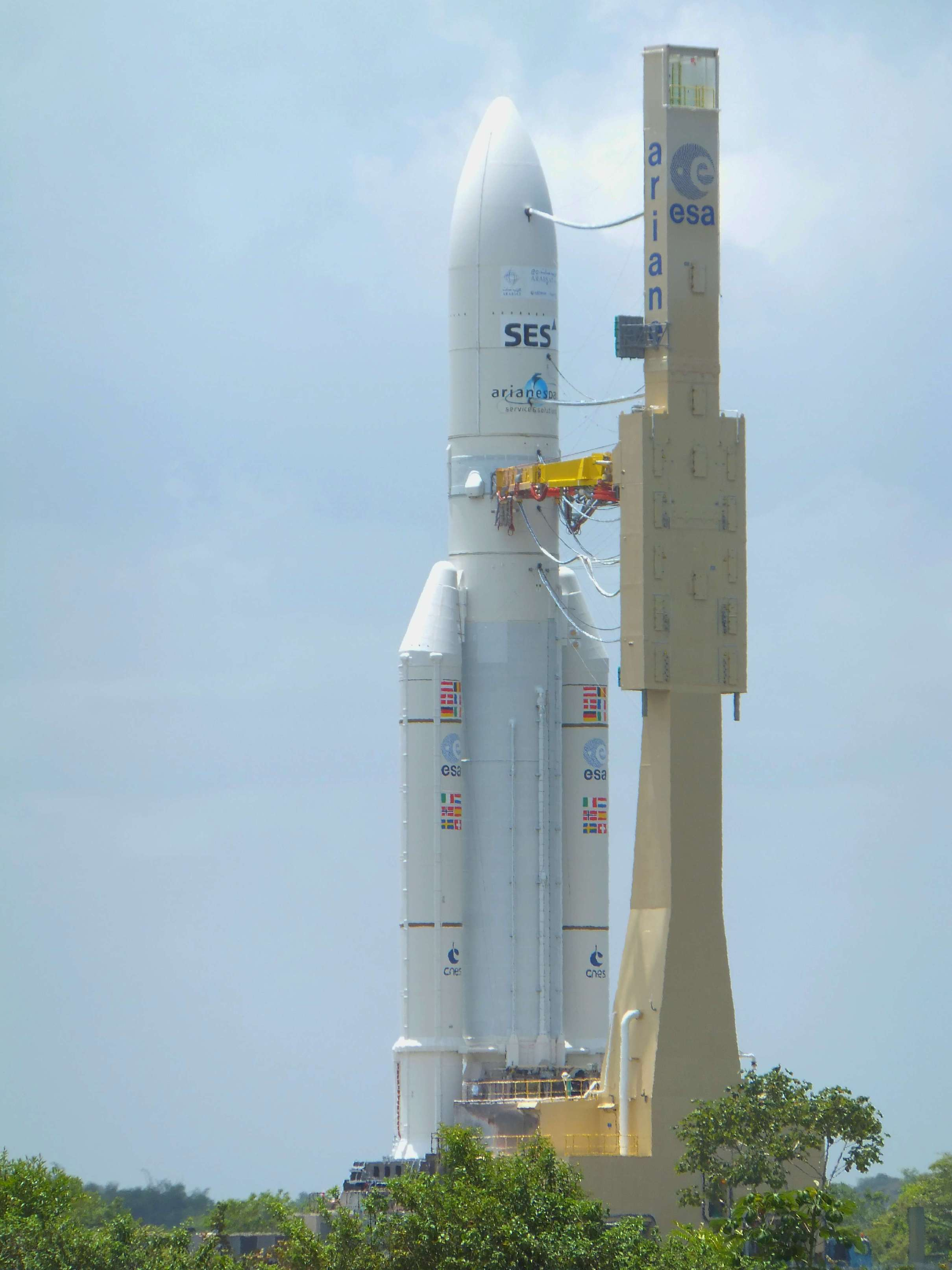 Ariane 5